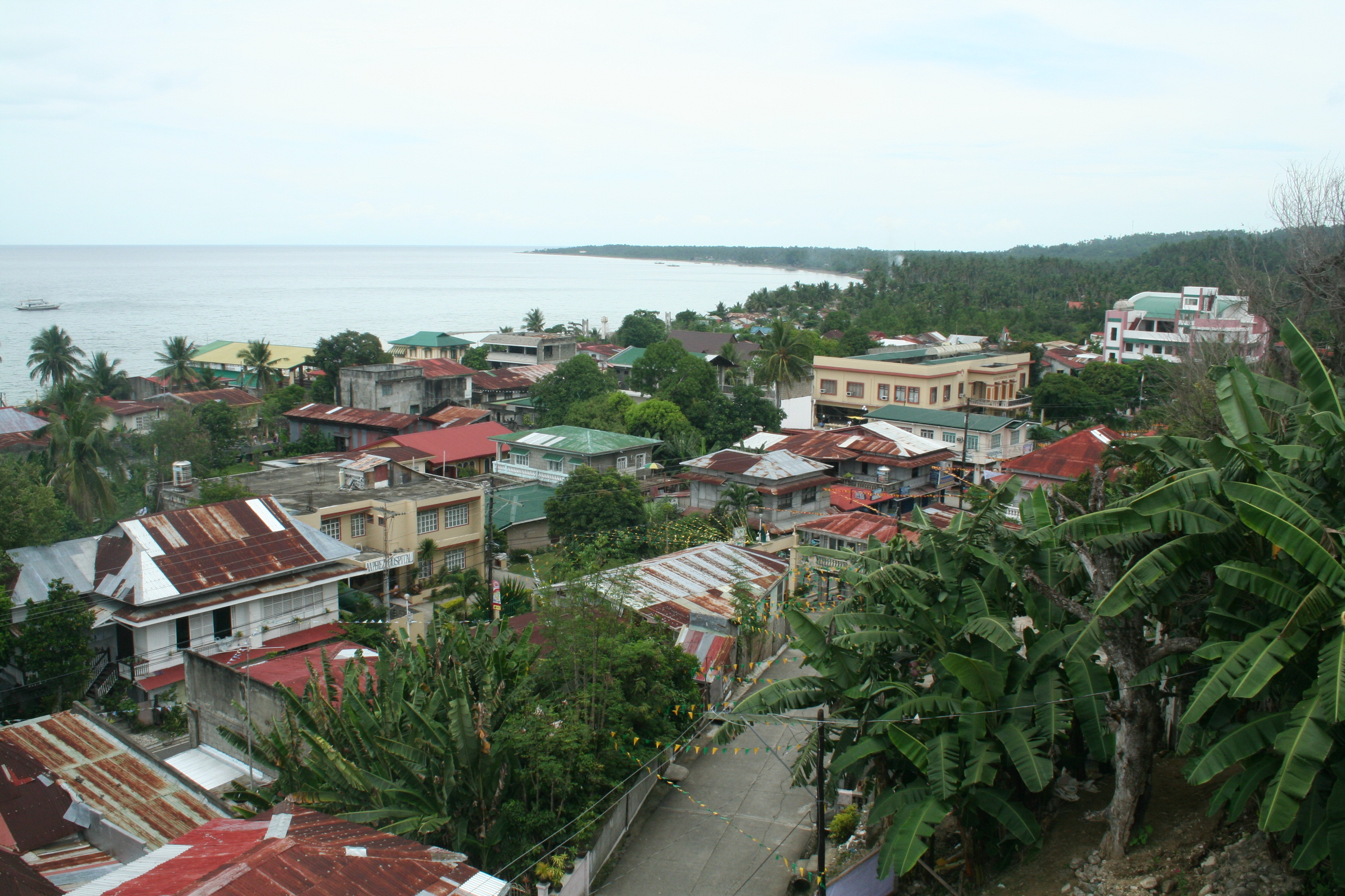 Skyline of Gasan, Marinduque in the Philippines, taken from the hill of St. Joseph the Worker Parish. Tagalog: Panoramang urbano ng Gasan, Marinduque sa Pilipinas, na kinunan mula sa burol ng Parokya ni San Jose ang Manggagawa.